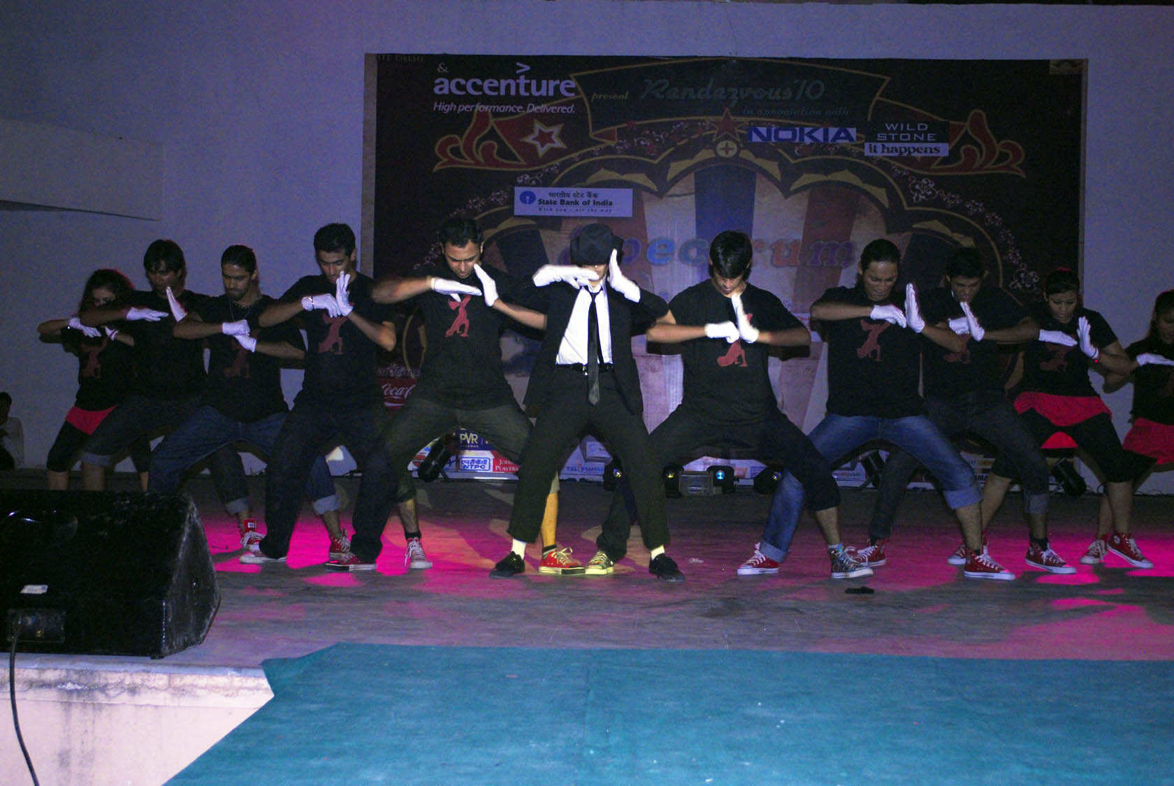 Rendezvous2010